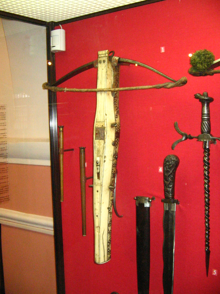 Crossbow hunting of ivory